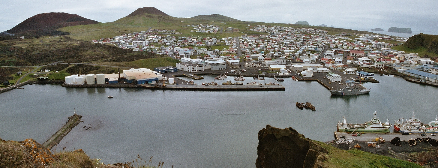 Heimaey, from north, June 2005 ; Panorama created with two digitized argentic pictures, merged with Hugin (software)